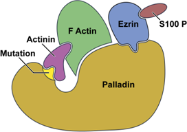 Palladin Is an Alpha-Actinin Binding Protein that Controls Cytoskeletal Formation and Cell Movement. Palladin binds other key proteins such as Ezrin. Previous studies have shown that Ezrin and S100P are proteins that are abnormally regulated in pancreatic cancer.